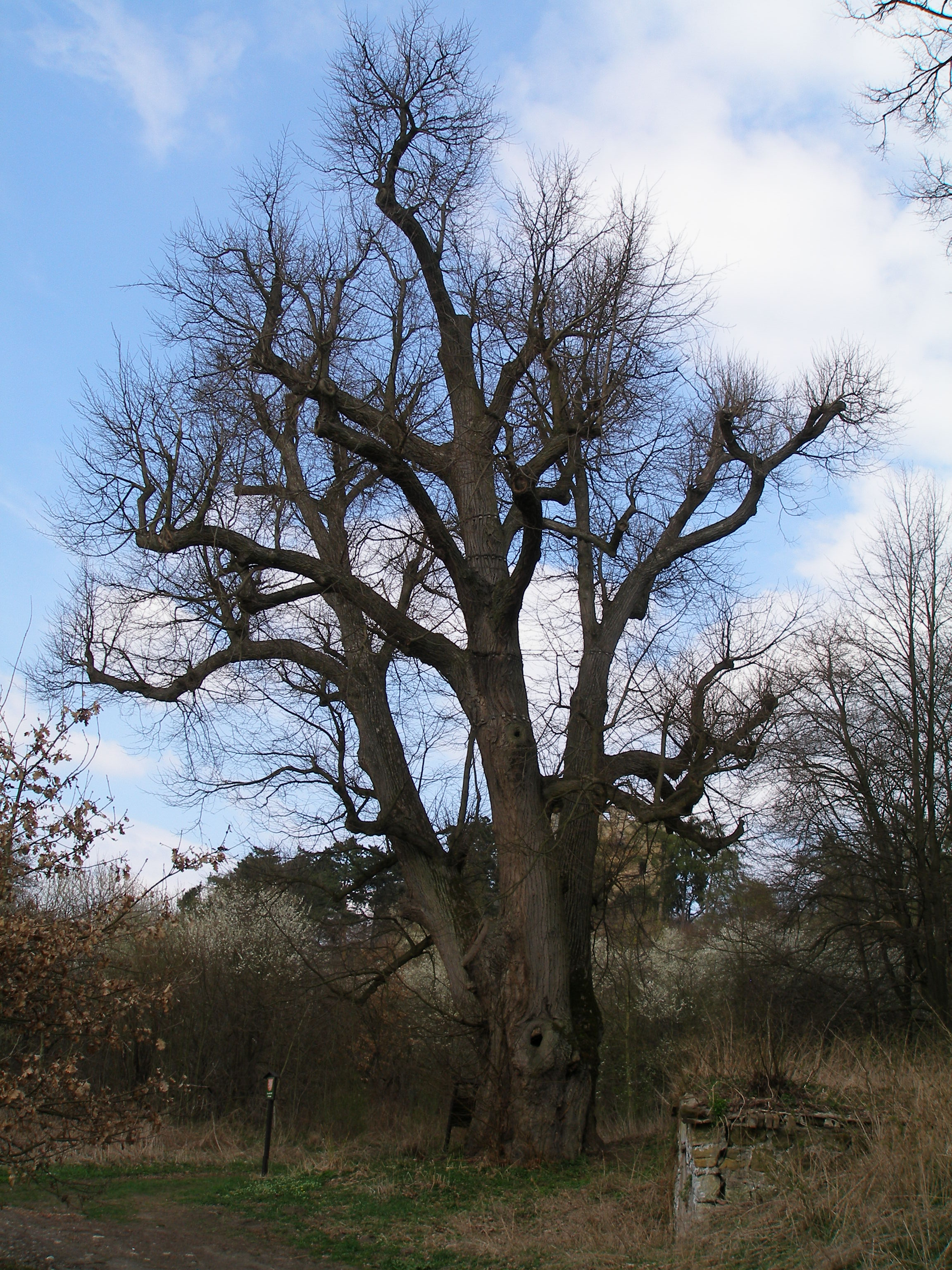 Lime in Boseň.